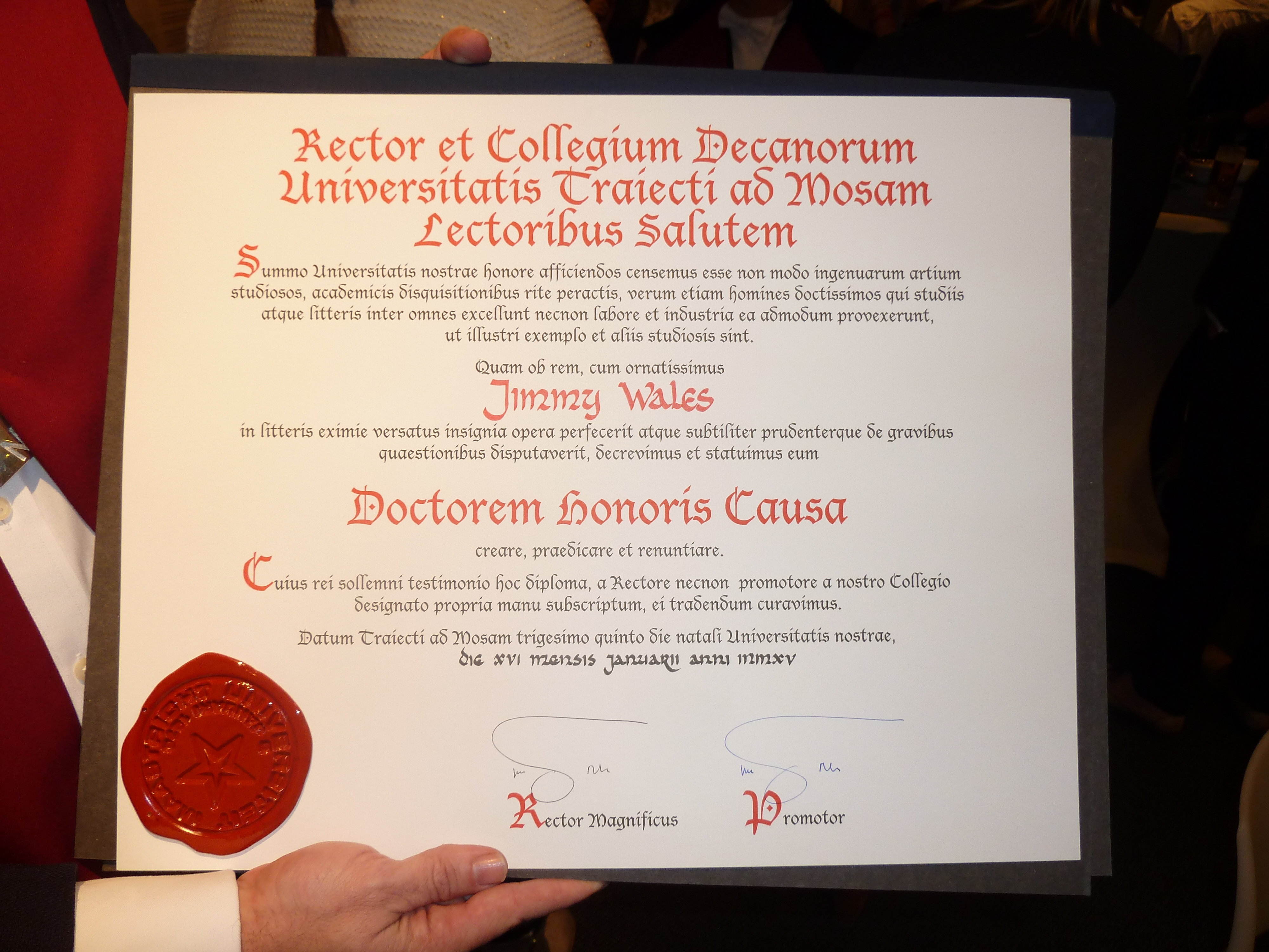 39th Dies Natalis (birthday) of Maastricht University, honory doctorate for Jimmy Wales (mistake in Latin text: “trigesimo quinto die natali” means “on the 35th birthday”, additionally use of long s glyph for representation of small letter L with one exception in the name “Wales”)